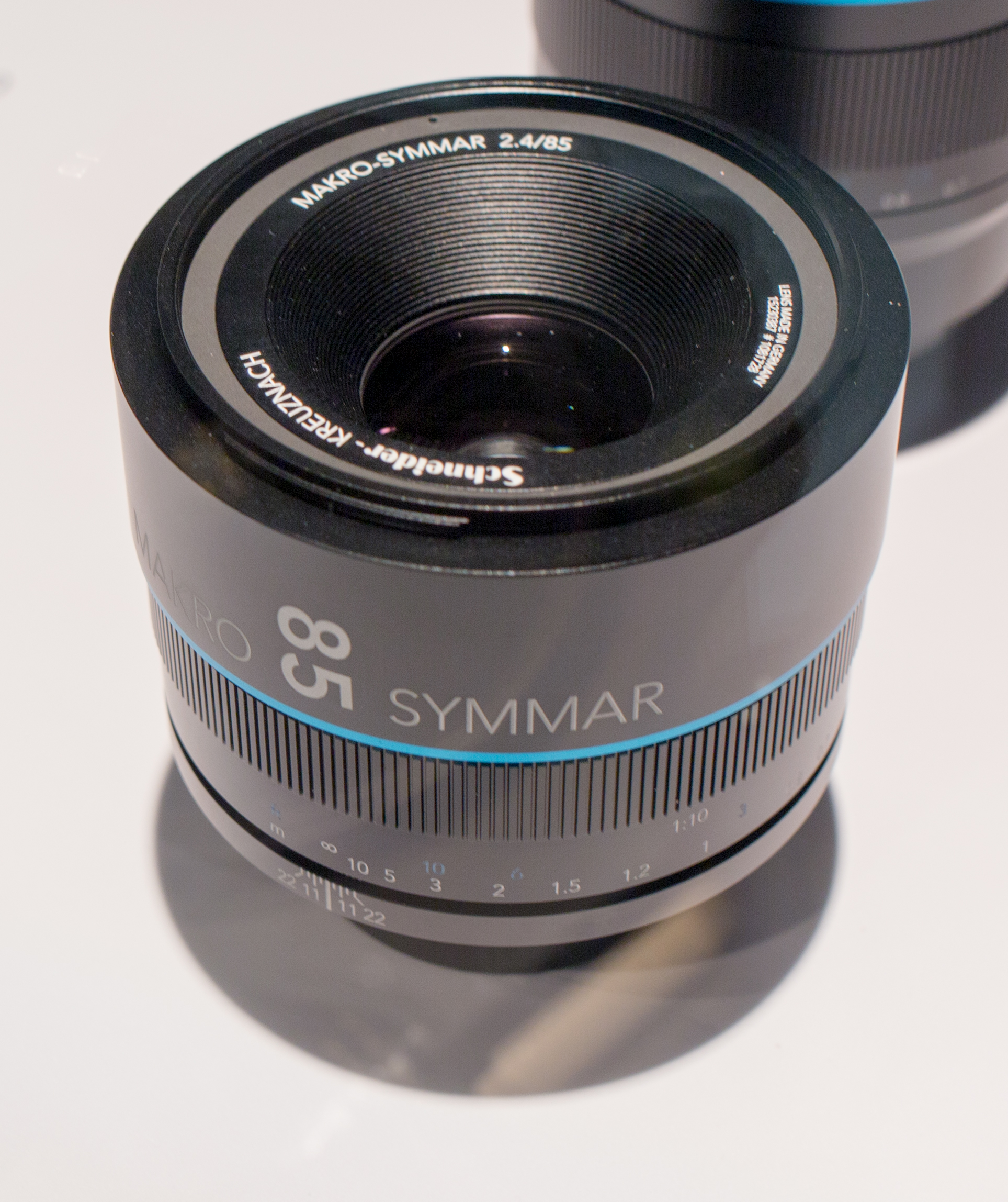 Schneider-Kreuznach Symmar 85mm lens